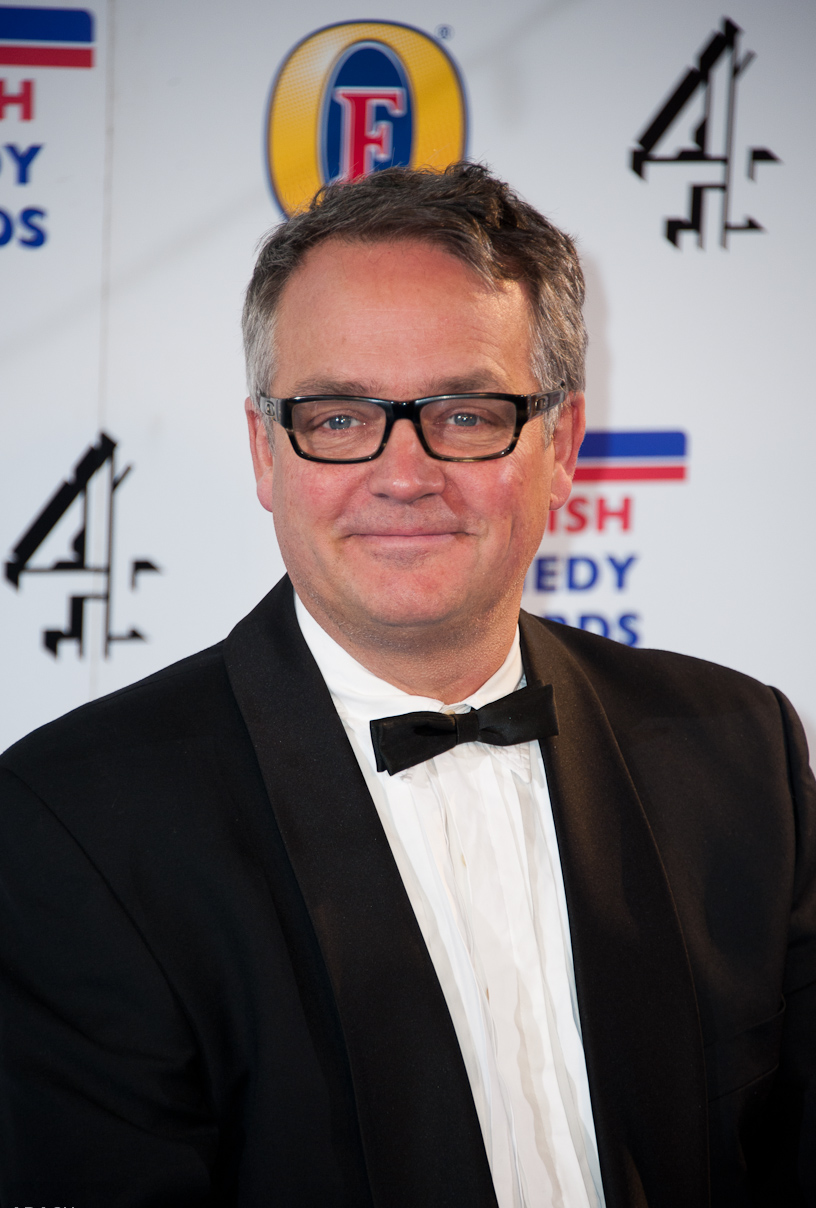 Charlie Higson at the 2013 British Comedy Awards, 12 December 2013